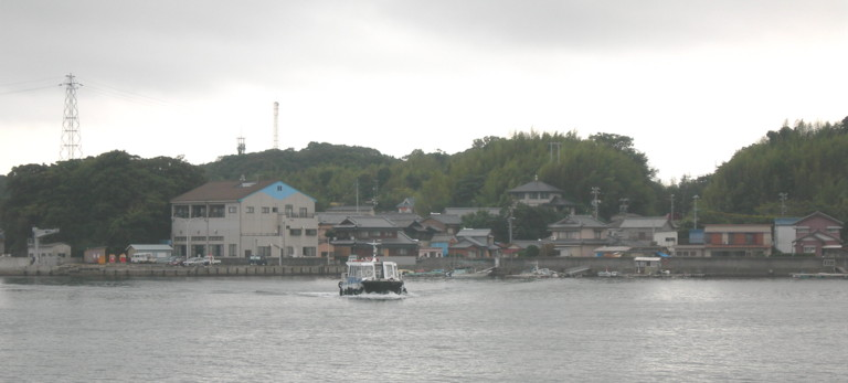 Matoya maru, the ship operated on the sea section of the Mie Prefectural Road Route 750